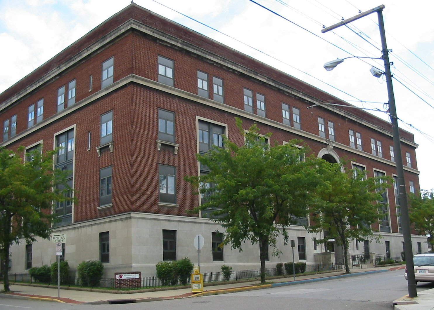 The Hazel-Atlas Glass Company was a large producer of machine-molded glass containers headquartered in Wheeling, West Virginia. Part of the East Wheeling Historic District.